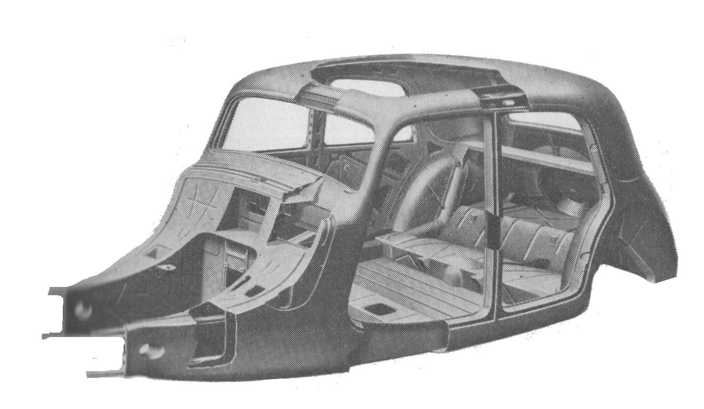 Citroen Traction Avant body-chassis unit (Autocar Handbook, 13th ed, 1935).jpg